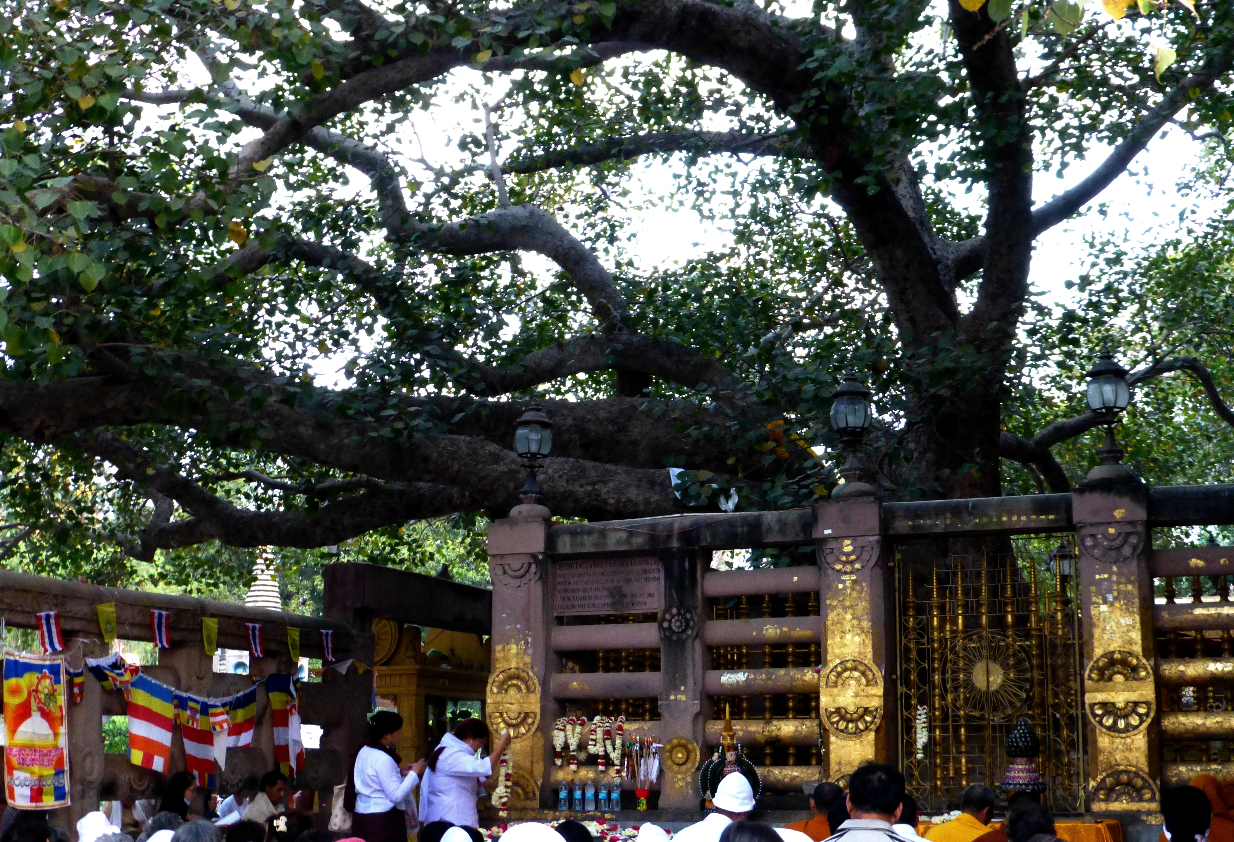 18 Bodhi Tree, at the Mahabodhi Temple, Bodhgaya Photograph from the Mahabodhi Temple complex in Gaya, Bihar taken by Anandajoti.